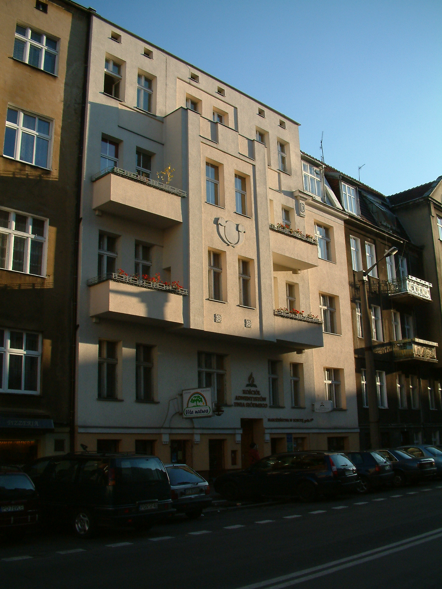 House of prayer of Seventh-day Adventist Church in Poznań, Poland. Zeylanda Street.